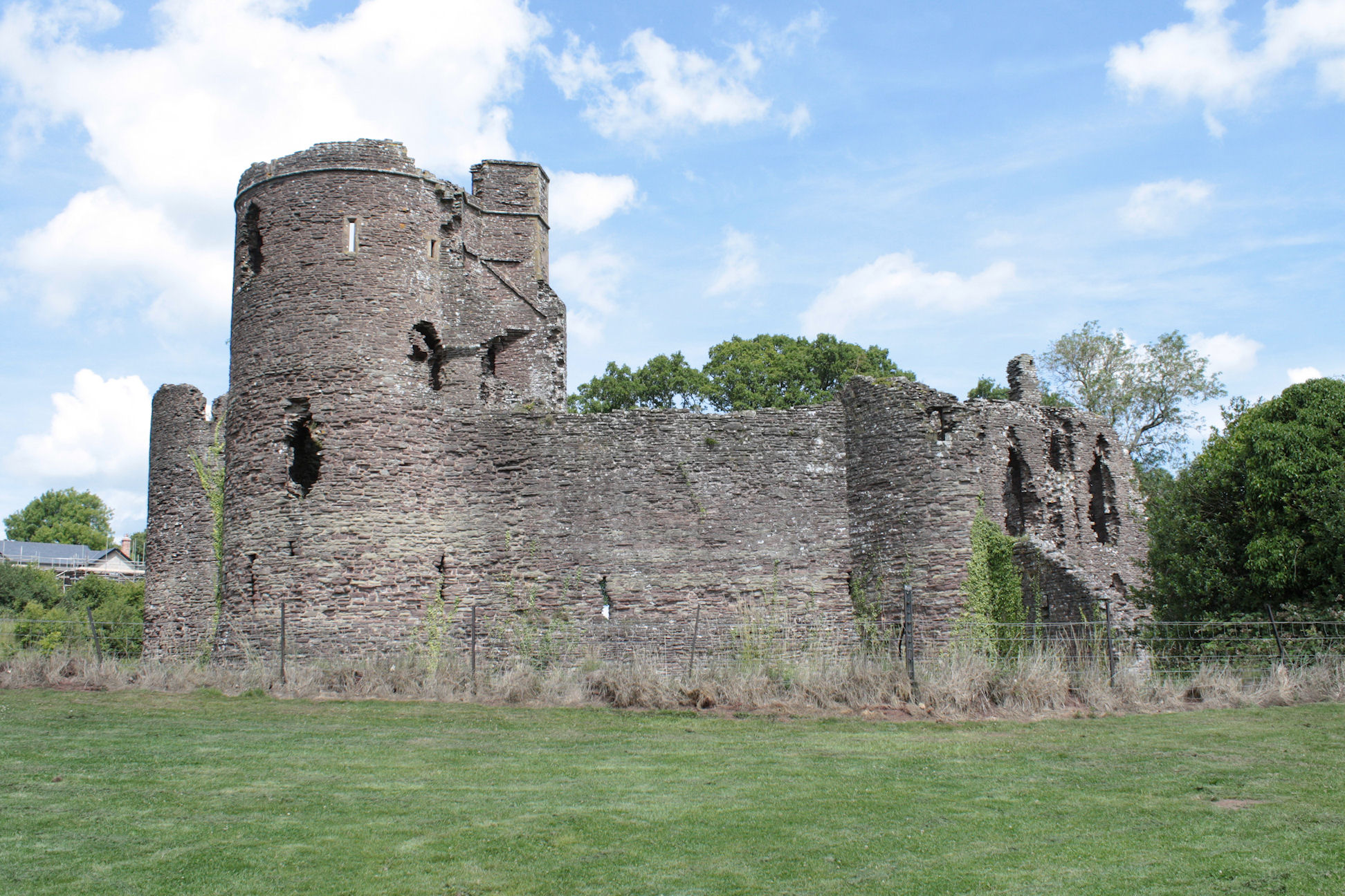 Grosmont Castle seen from the south. The round tower dominating the image is the south-west tower, and on the right is the gatehouse an entrance.